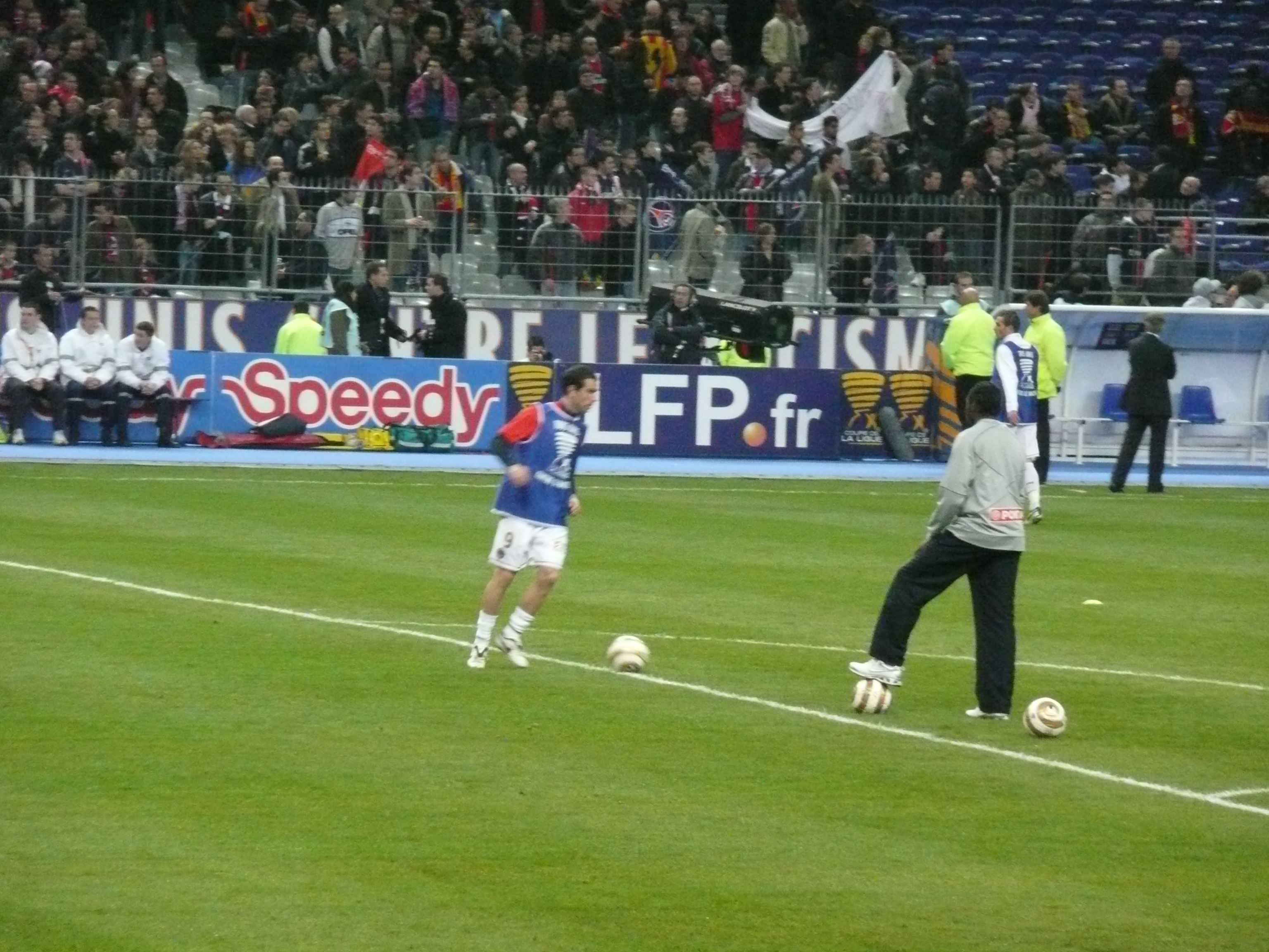 Pedro Miguel Pauleta, before the Coupe de la Ligue 2008 final between Paris Saint-Germain and RC Lens